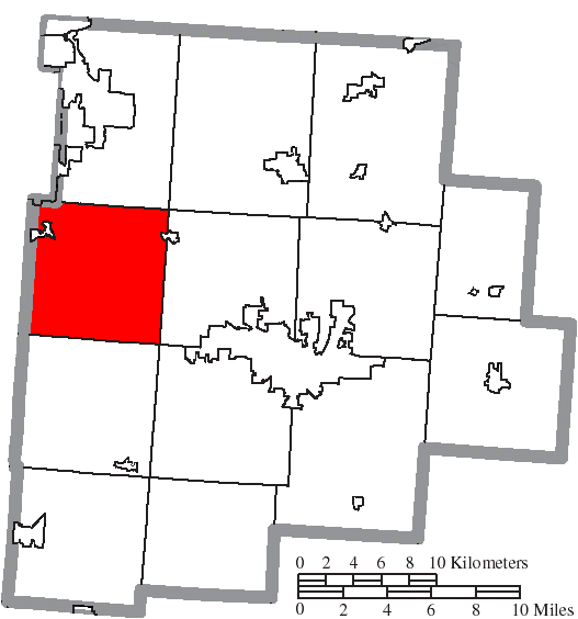 Map of the municipal and township boundaries of Fairfield County, Ohio, United States, as of the 2000 census, with the location of Bloom Township highlighted. Township borders are shown only in unincorporated areas in order to differentiate incorporated and unincorporated areas more clearly.